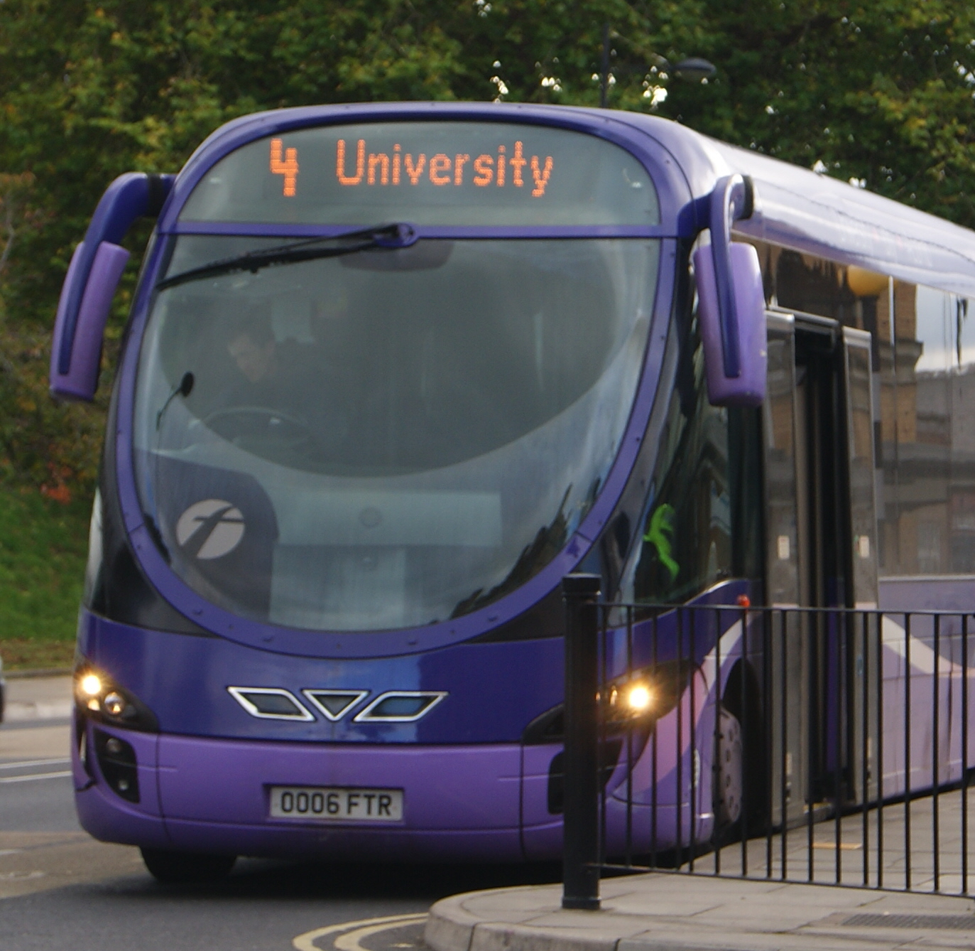 An ftr bus (#19006 reg. OO06 FTR) in York, England. It is pictured heading north at Stop D on Station Road outside York railway station, en route to the terminus at the University campus in Heslington.